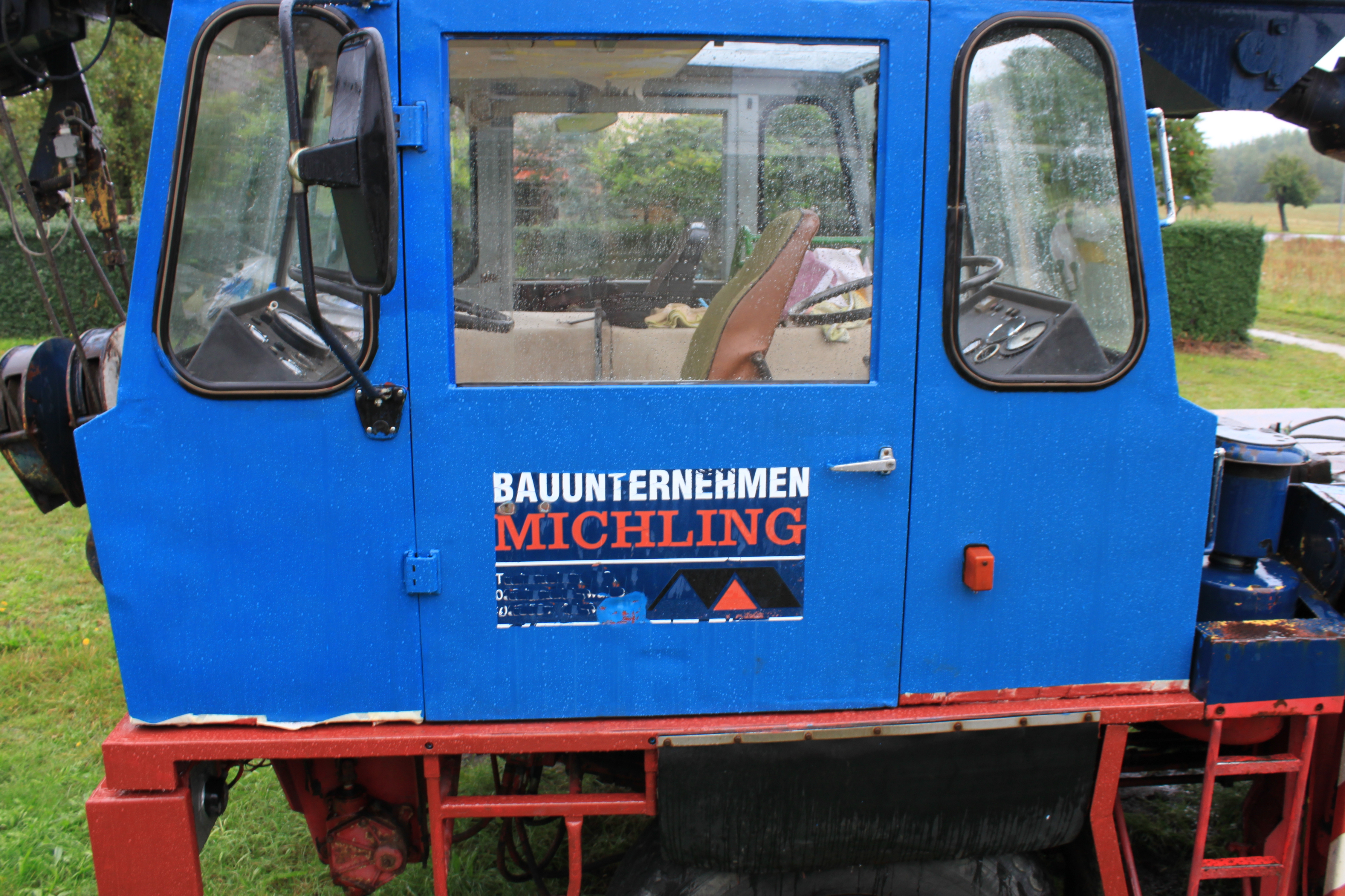 TAKRAF ADK 125-3